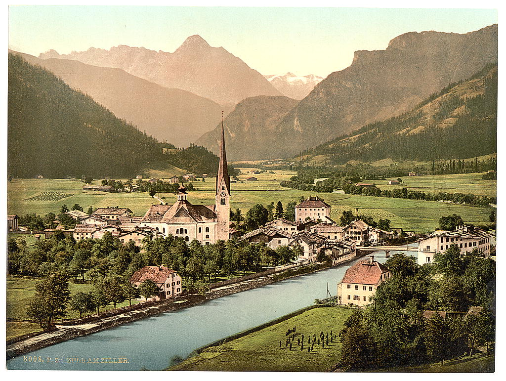 Zell am Ziller, Tyrol, Austro-Hungary